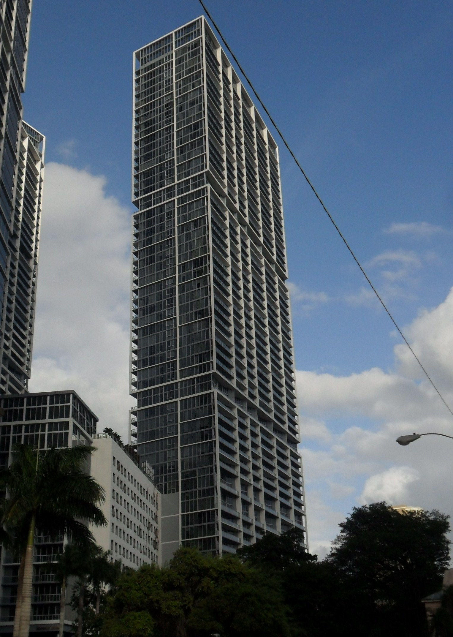 The Icon Brickell South Tower from the west.